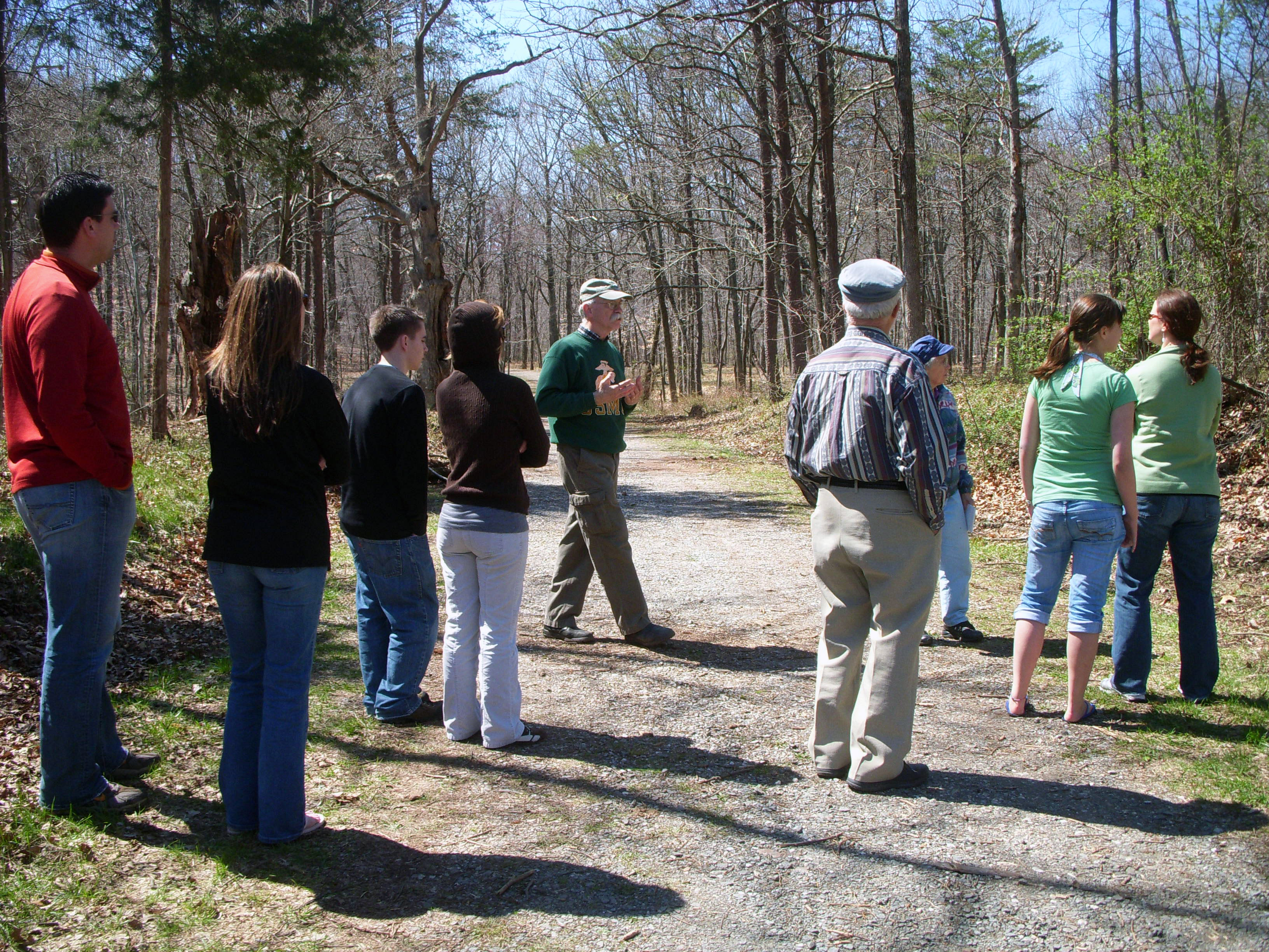 Local battlefield guide conducts a walking tour of the Ball's Bluff Battlefield and National Cemetery in Loudon County, Virginia.